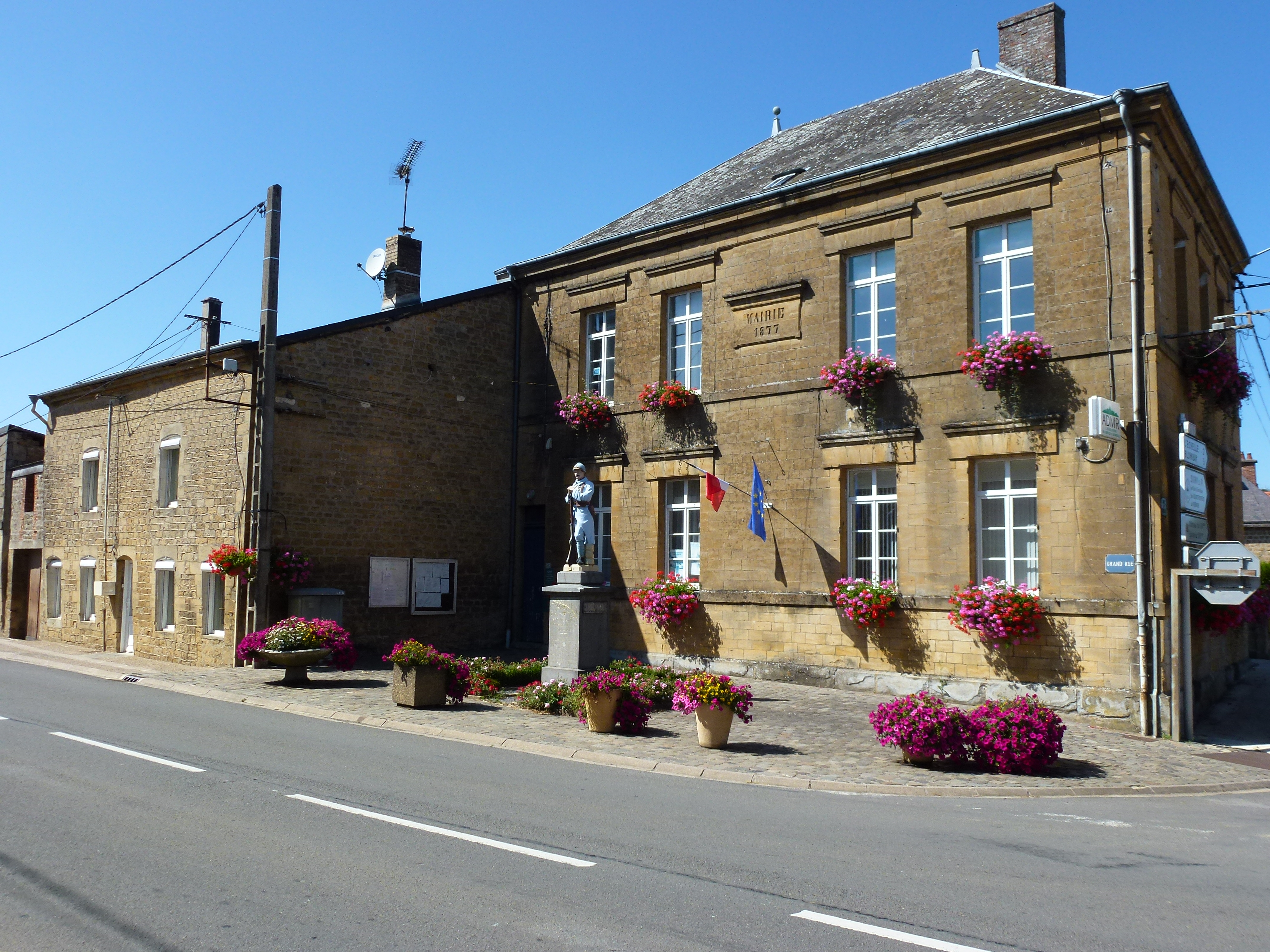 Rouvroy-sur-Audry (Ardennes) mairie